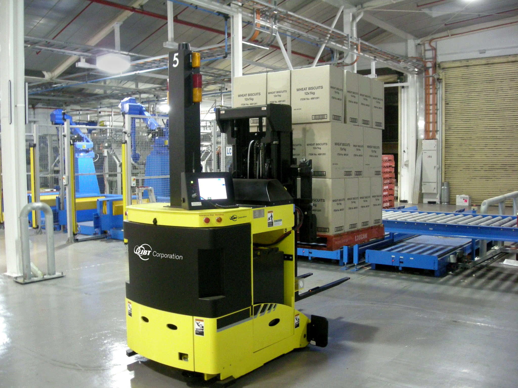 Photo taken from the JBT Corporation Photo Archives